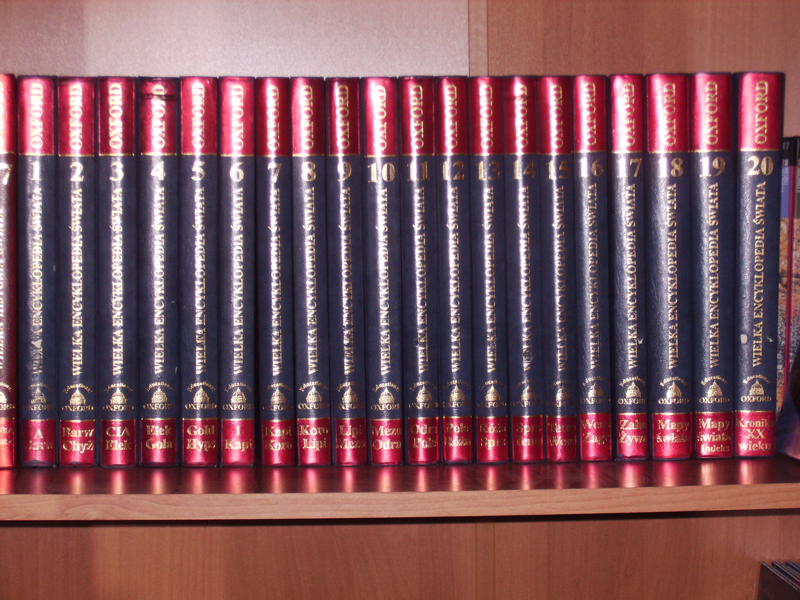 Oxford Encyclopedia